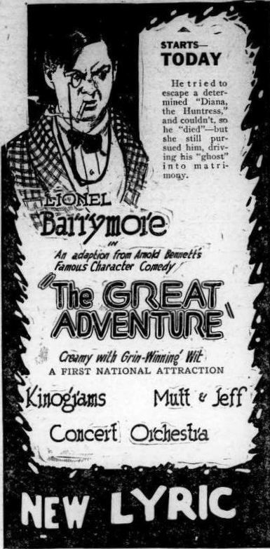 Newspaper advertisement for the American film The Great Adventure (1921) with Lionel Barrymore, on page 11 of the April 9, 1921 Duluth Herald.